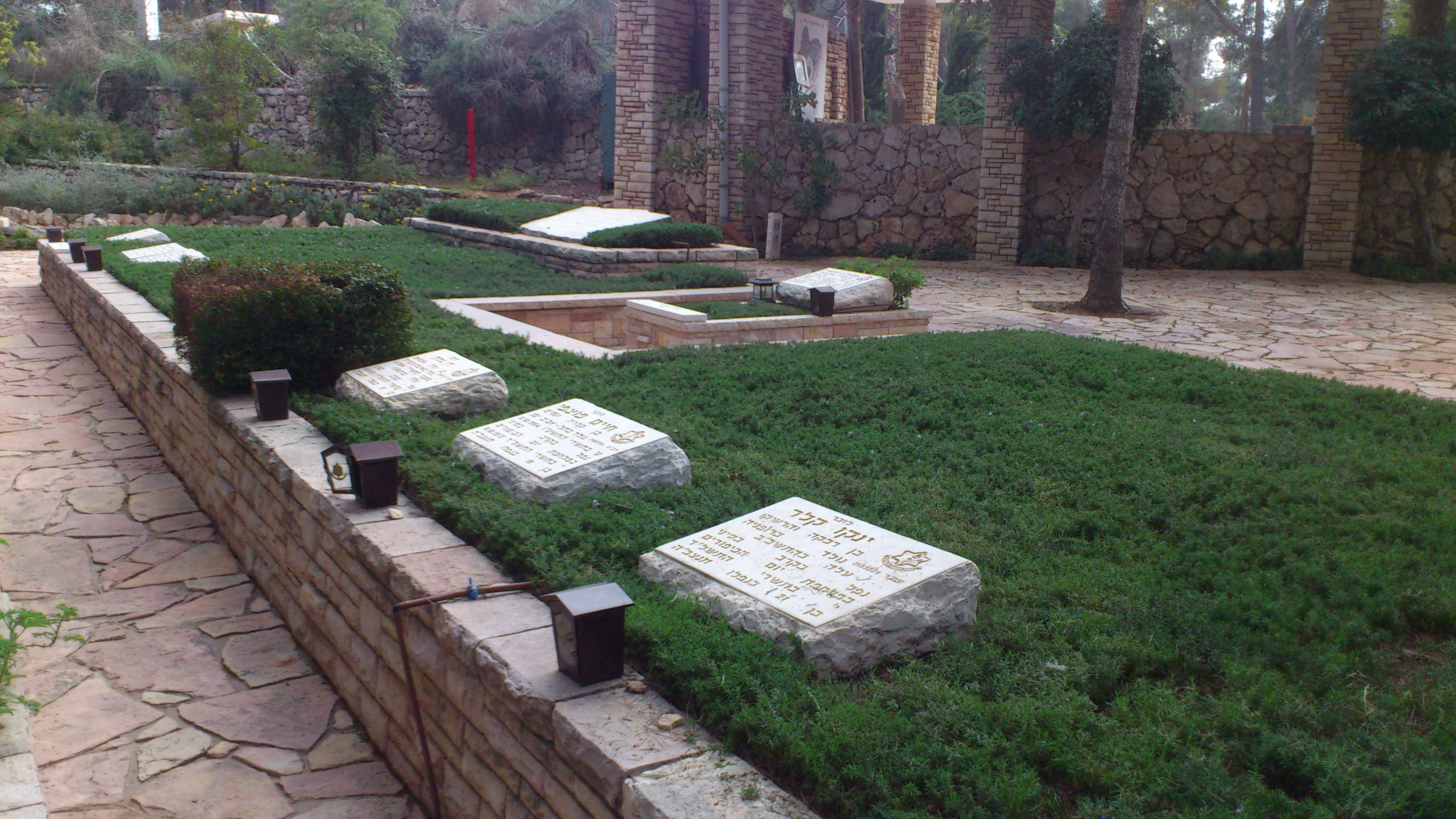 Mount Herzl - Yom Kippur Plot